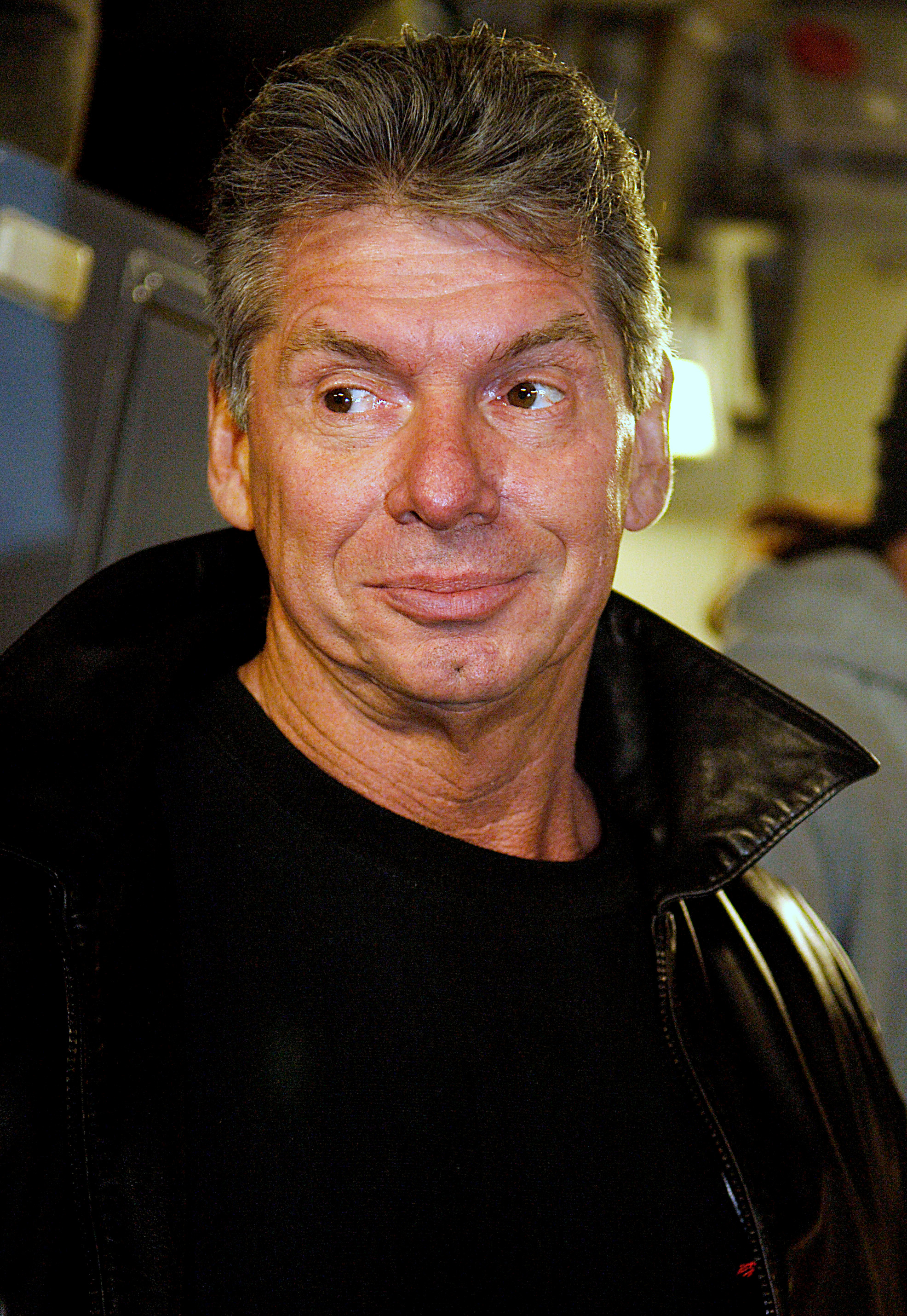 Vince McMahon, the Chairman of the Board of the World Wrestling Entertainment, Inc. boards a C-17 Globemaster III at Charleston Air Force Base, S.C. The 437th Aerial Port Squadron hosts the WWE stars and crew before a flight to Ramstein Air Base, Germany, Dec. 5, 2006. The WWE is performing for troops deployed overseas during a holiday tour put together by Armed Forces Entertainment. This will be the fourth time the WWE has teamed with Armed Forces Entertainment to entertain deployed troops.